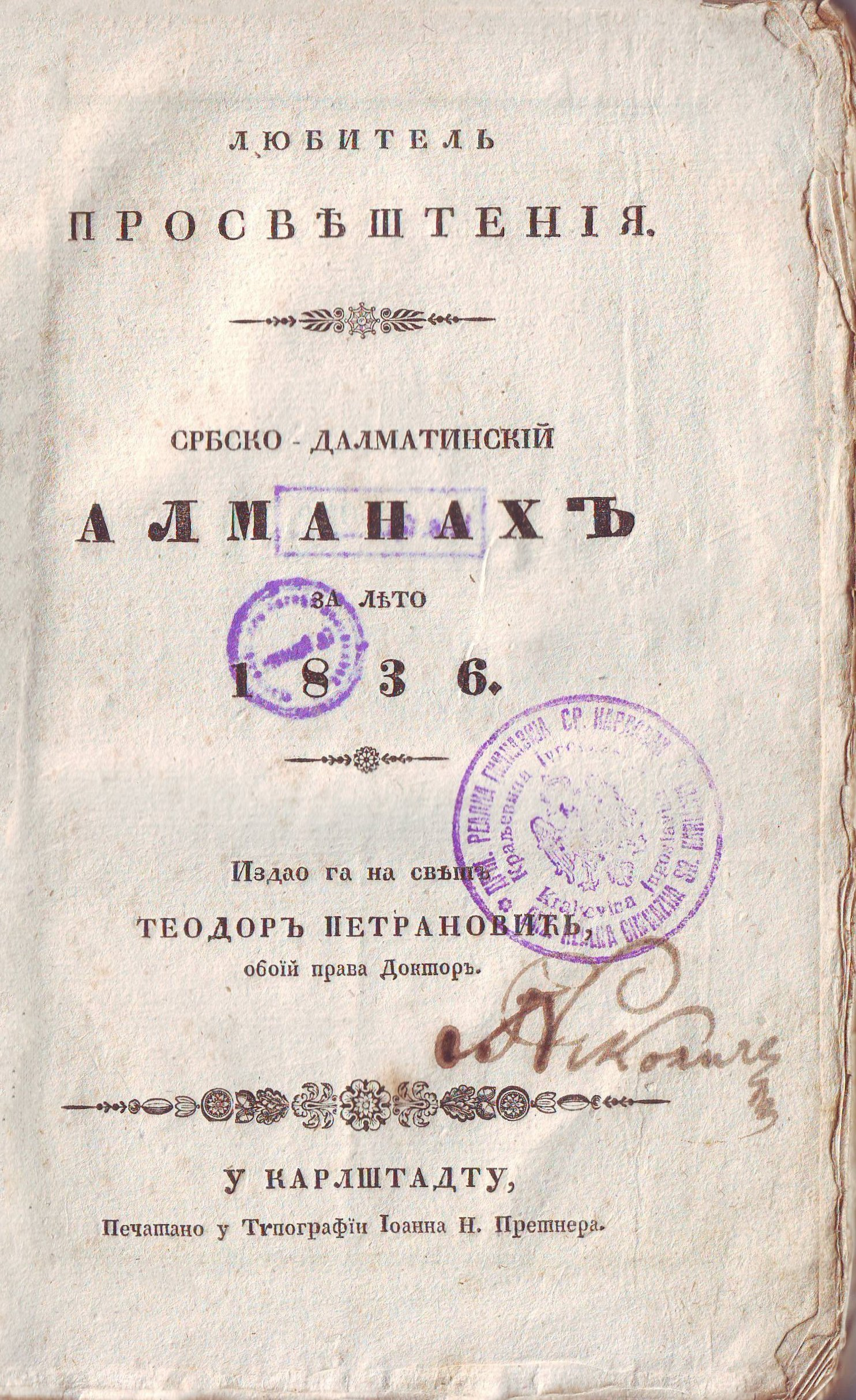 Cover of the first issue of the Serbian-Dalmatian Almanac (later known as the Serbian-Dalmatian Magazine) from 1836. Srpski (latinica): Naslovna strana prvog broja časopisa Srbsko-dalmatinski almanah (kasnije poznat kao Srbsko-dalmatinski magazin) iz 1836. godine.